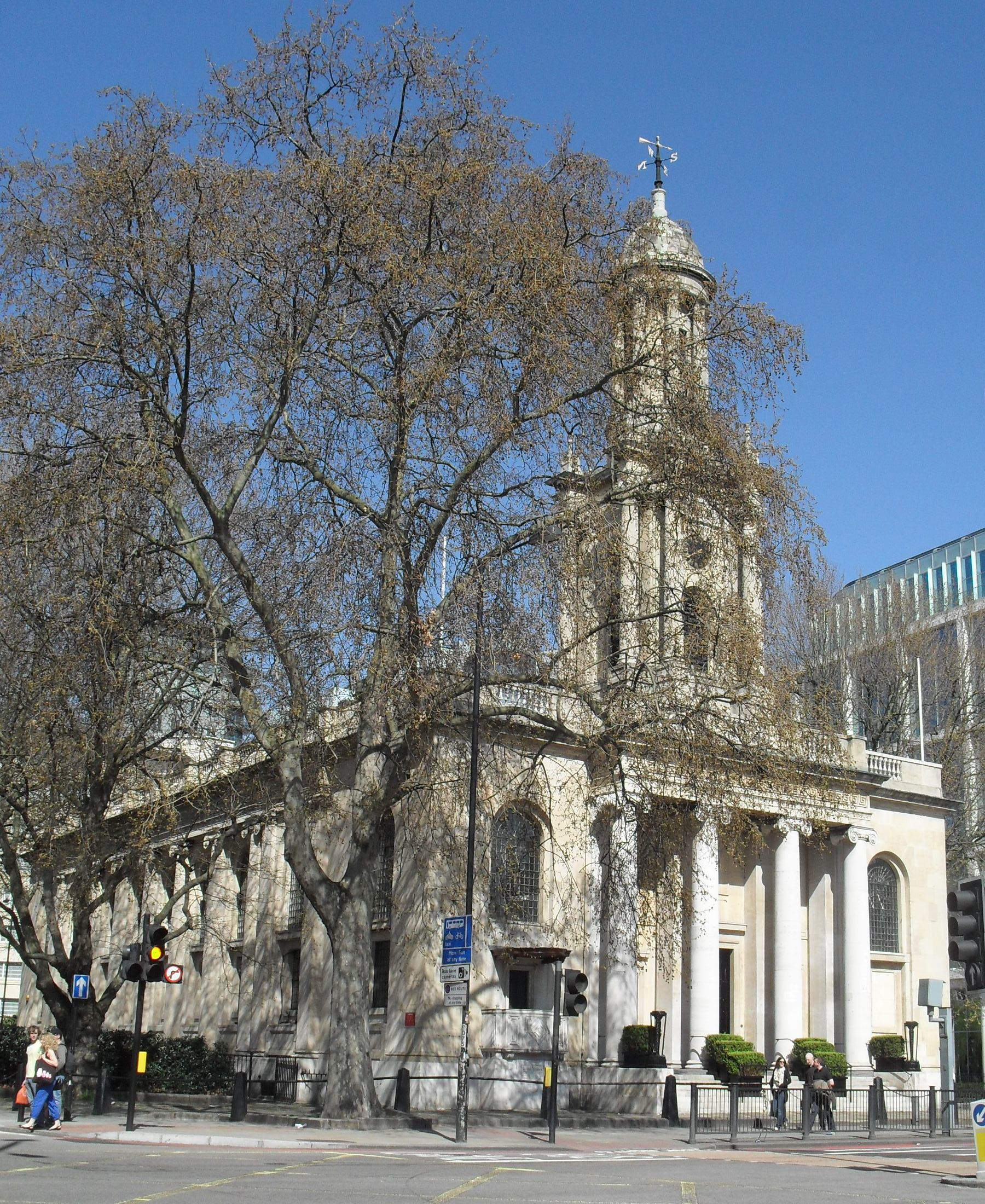 Former Holy Trinity Church, Marylebone Road, London NW1, England. A Commissioners' Church built by Sir John Soane in 1824–28. Converted to offices in the mid-20th century. Listed at Grade II* by English Heritage (IoE Code 417828)